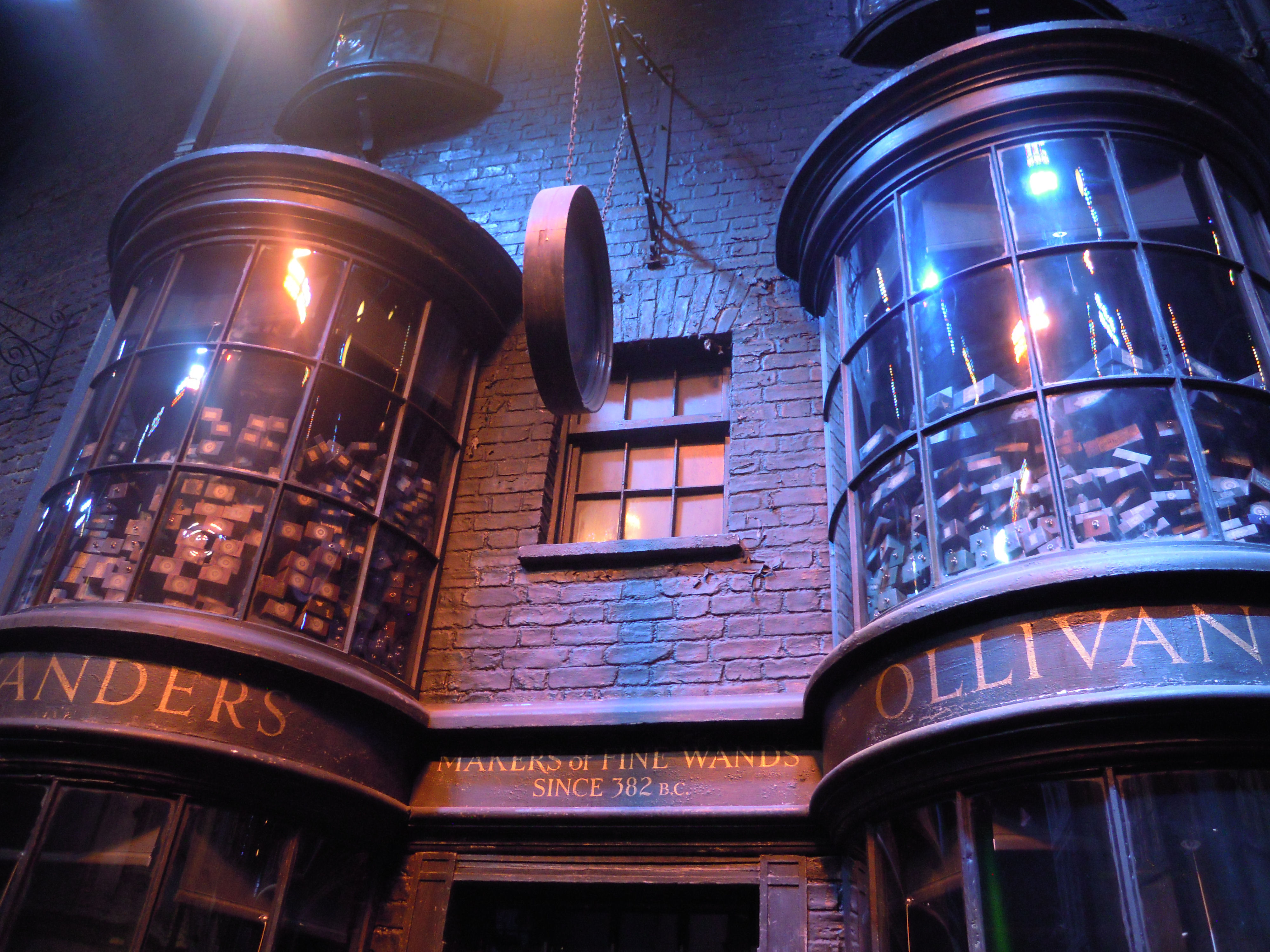 Ollivanders Wand Shop, Diagon Alley. Harry Potter film set at Warner Bros. Studios, Leavesden, UK